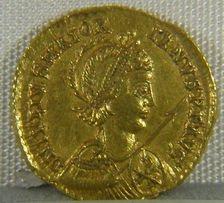 Coin of Majorianus